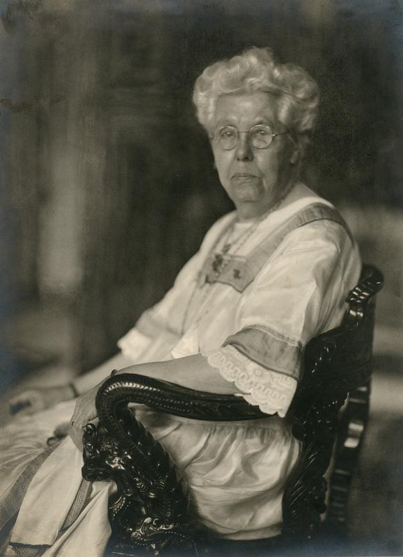 Annie Besant, British theosophist and socialist. Photographer: Franz Ziegler (1893-1939). Photo made between 1926 and 1933.